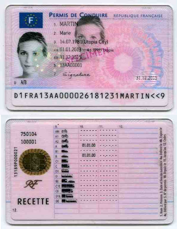 French driving licence - new EU specimen 2013